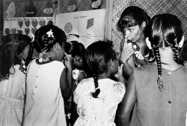 American teacher, Marshallese English class